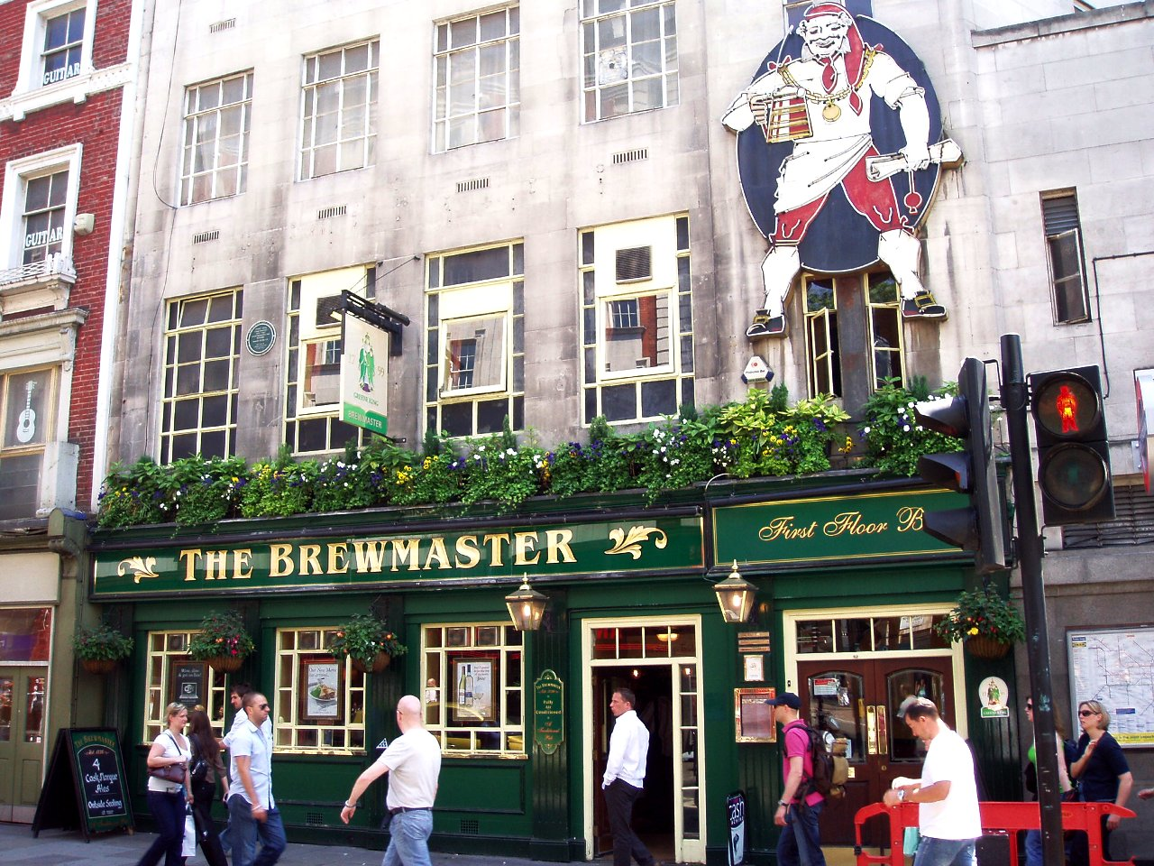 A Greene King pub by Leicester Square station. Address: 37 Cranbourn Street (formerly at Upper St Martins Lane). Former Name(s): The Swiss Stores (on the same site). Owner: Greene King (website). Links: Fancyapint Beer in the Evening Dead Pubs (history)